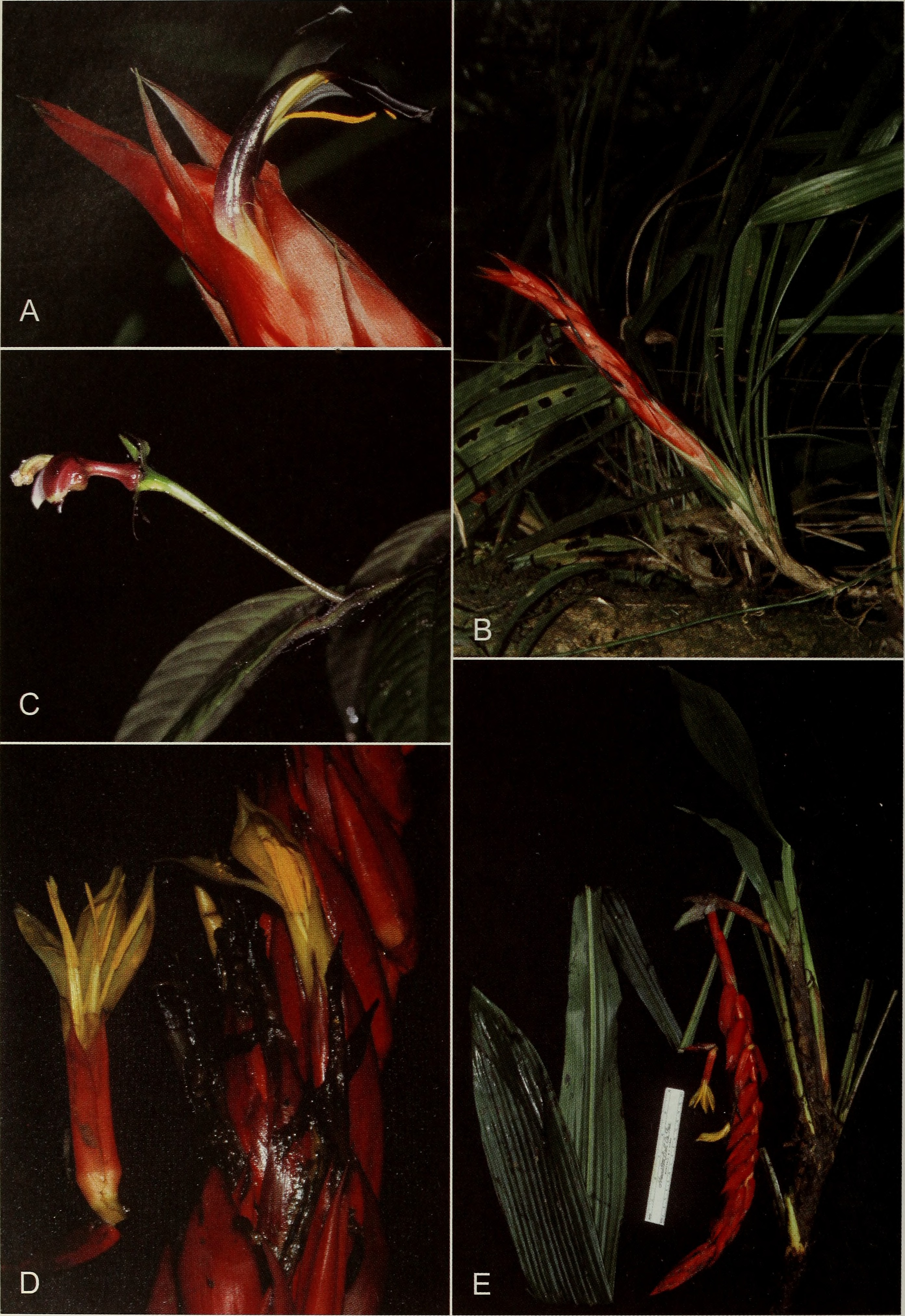 Title: Contributions from the United States National Herbarium Year: 1890 (1890s) Authors: National Museum of Natural History (U. S. ). Dept. of Botany; United States National Museum Subjects: Botany Publisher: Washington, DC : Dept. of Botany, National Museum of Natural History Text Appearing Before Image: 134 Checklist of the Mache-Chindul Mtns. Text Appearing After Image: Figure 7. A-B. Flower and habit of Pitcairnia clarkii H. Luther. C. Flower of Burmeistera smaragdi Lammers. D-E. Flower and habit of Pitcairnia ferrell-ingramiae H. Luther & Dalstrom.